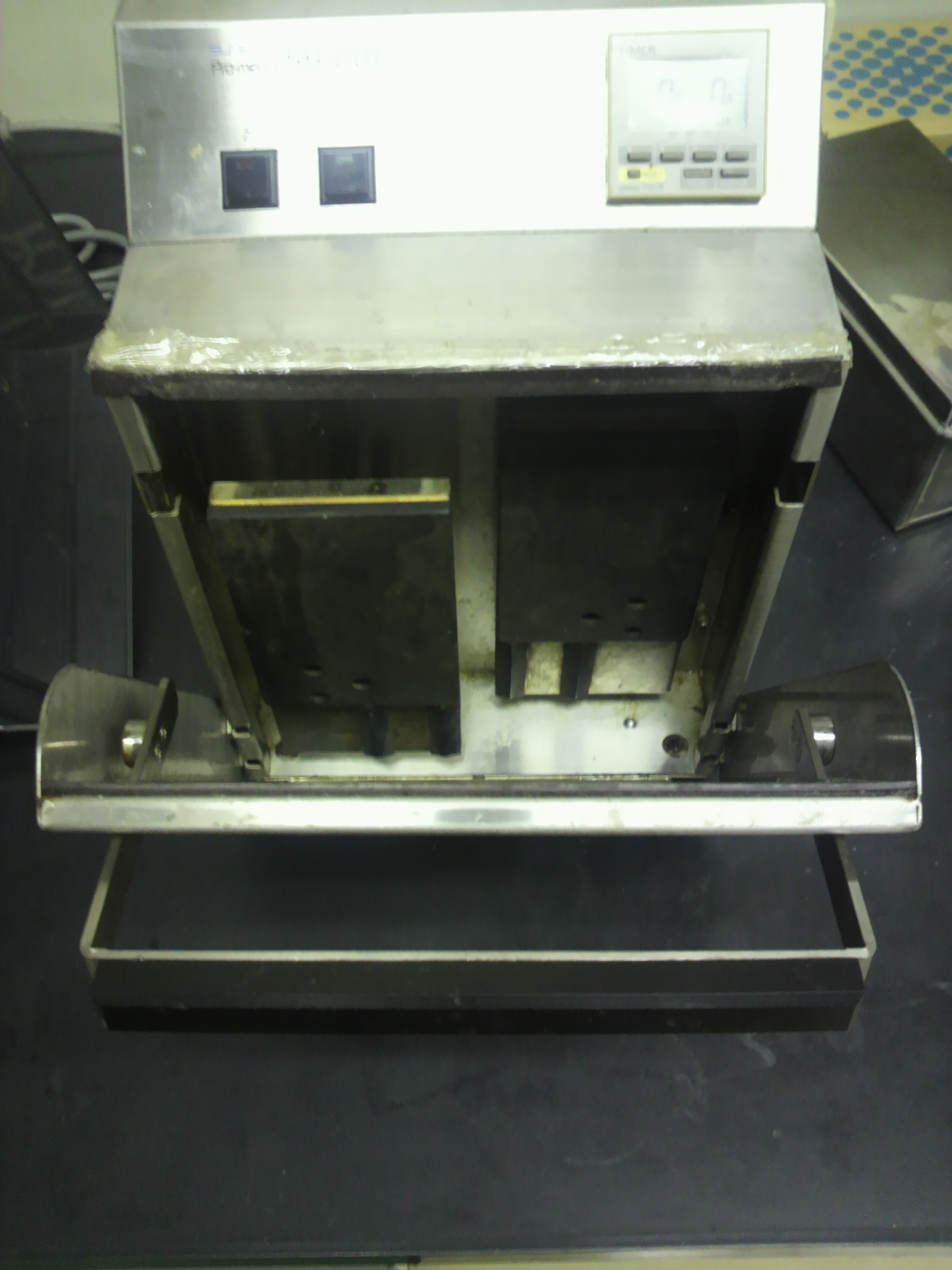 Stomacher